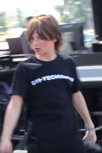 Matt Ox performing at the Day N Night Fest in Anaheim, California on September 8, 2017.